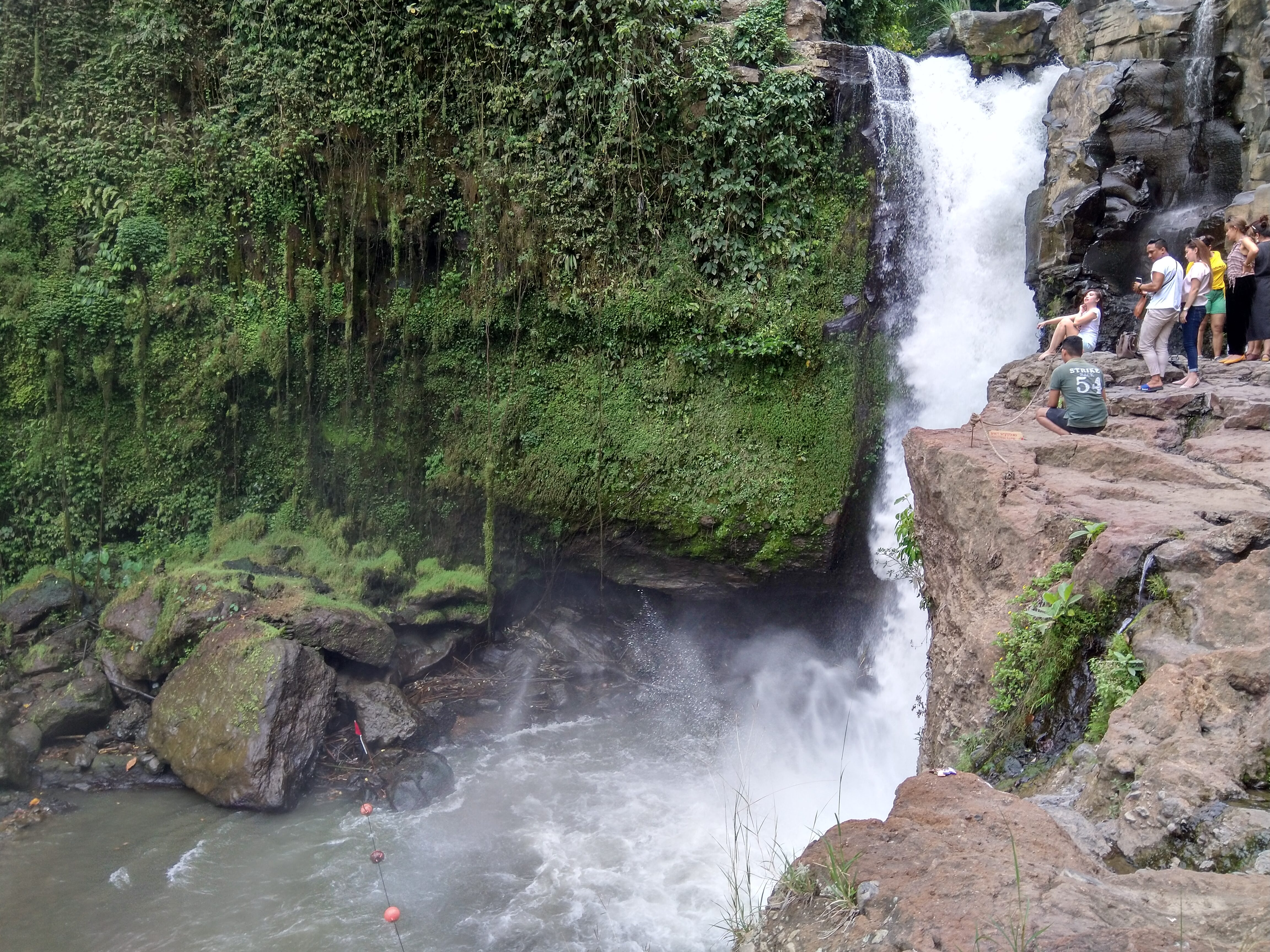 Another view of the Tegenungan Waterfall in Gianyar